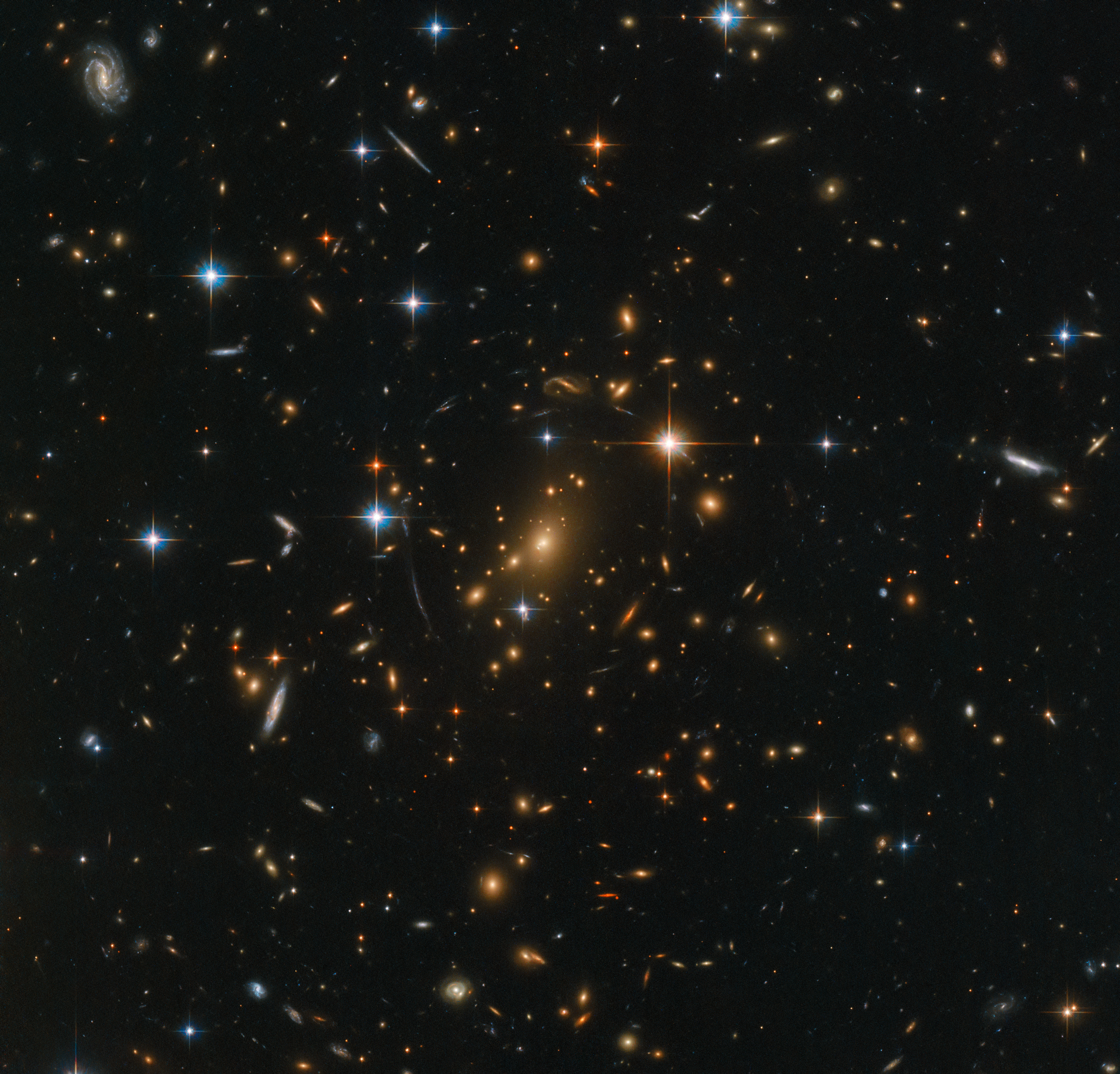 Galaxies abound in this spectacular Hubble image; spiral arms swirl in all colours and orientations, and fuzzy ellipticals can be seen speckled across the frame as softly glowing smudges on the sky. Each visible speck of a galaxy is home to countless stars. A few stars closer to home shine brightly in the foreground, while a massive galaxy cluster nestles at the very centre of the image; an immense collection of maybe thousands of galaxies, all held together by the relentless force of gravity. Galaxy clusters are some of the most interesting objects in the cosmos. They are the nodes of the cosmic web that permeates the entire Universe — to study them is to study the organisation of matter on the grandest of scales. Not only are galaxy clusters ideal subjects for the study of dark matter and dark energy, but they also allow the study of farther-flung galaxies. Their immense gravitational influence means they distort the spacetime around them, causing them to act like giant zoom lenses. The light of background galaxies is warped and magnified as it passes through the galaxy cluster, allowing astronomers insight into the distant — and therefore early — Universe. This image was taken by Hubble’s Advanced Camera for Surveys and Wide-Field Camera 3 as part of an observing programme called RELICS (Reionization Lensing Cluster Survey). RELICS imaged 41 massive galaxy clusters with the aim of finding the brightest distant galaxies for the forthcoming NASA/ESA/CSA James Webb Space Telescope (JWST) to study.